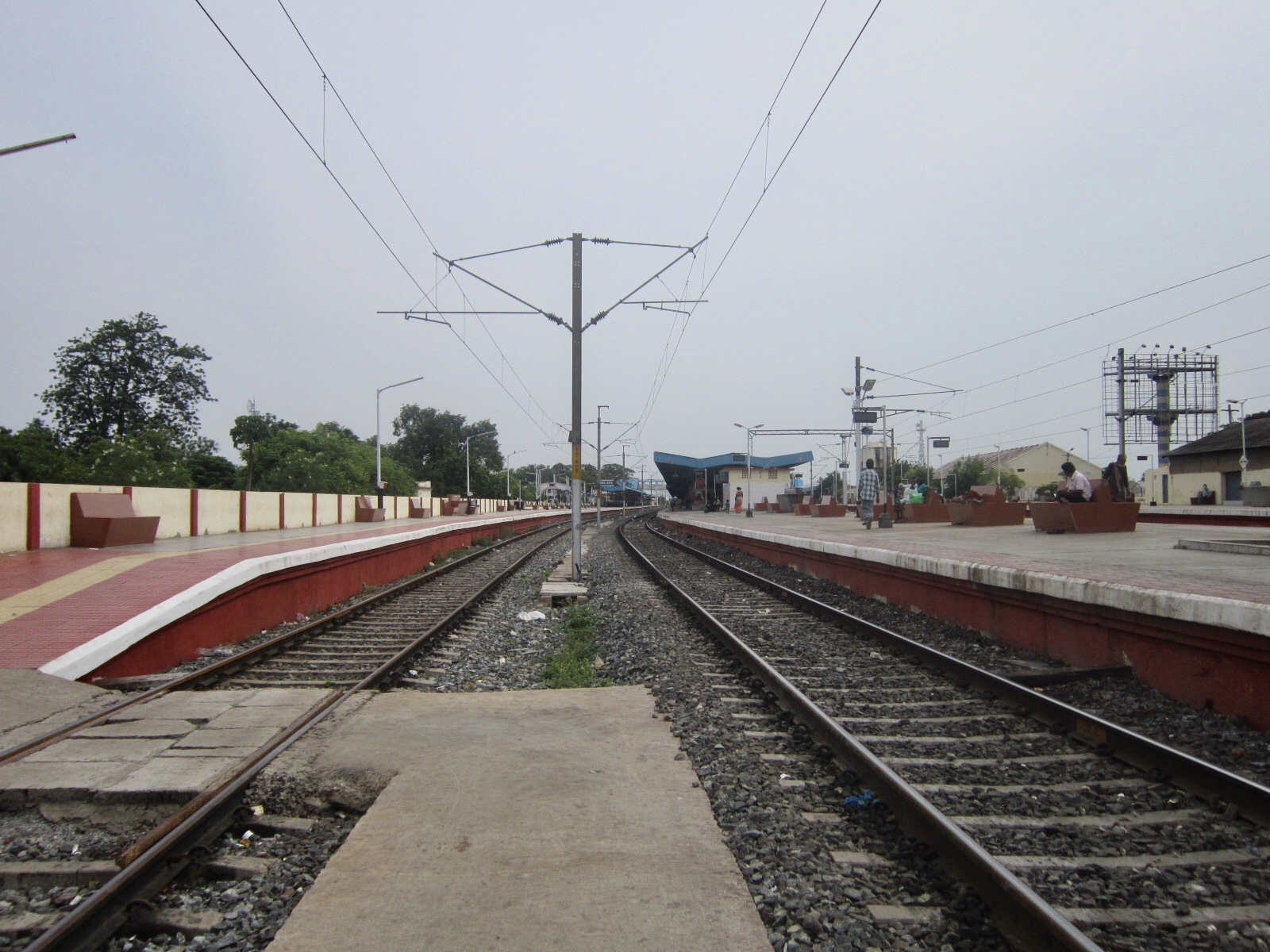 Railway station in Nellore